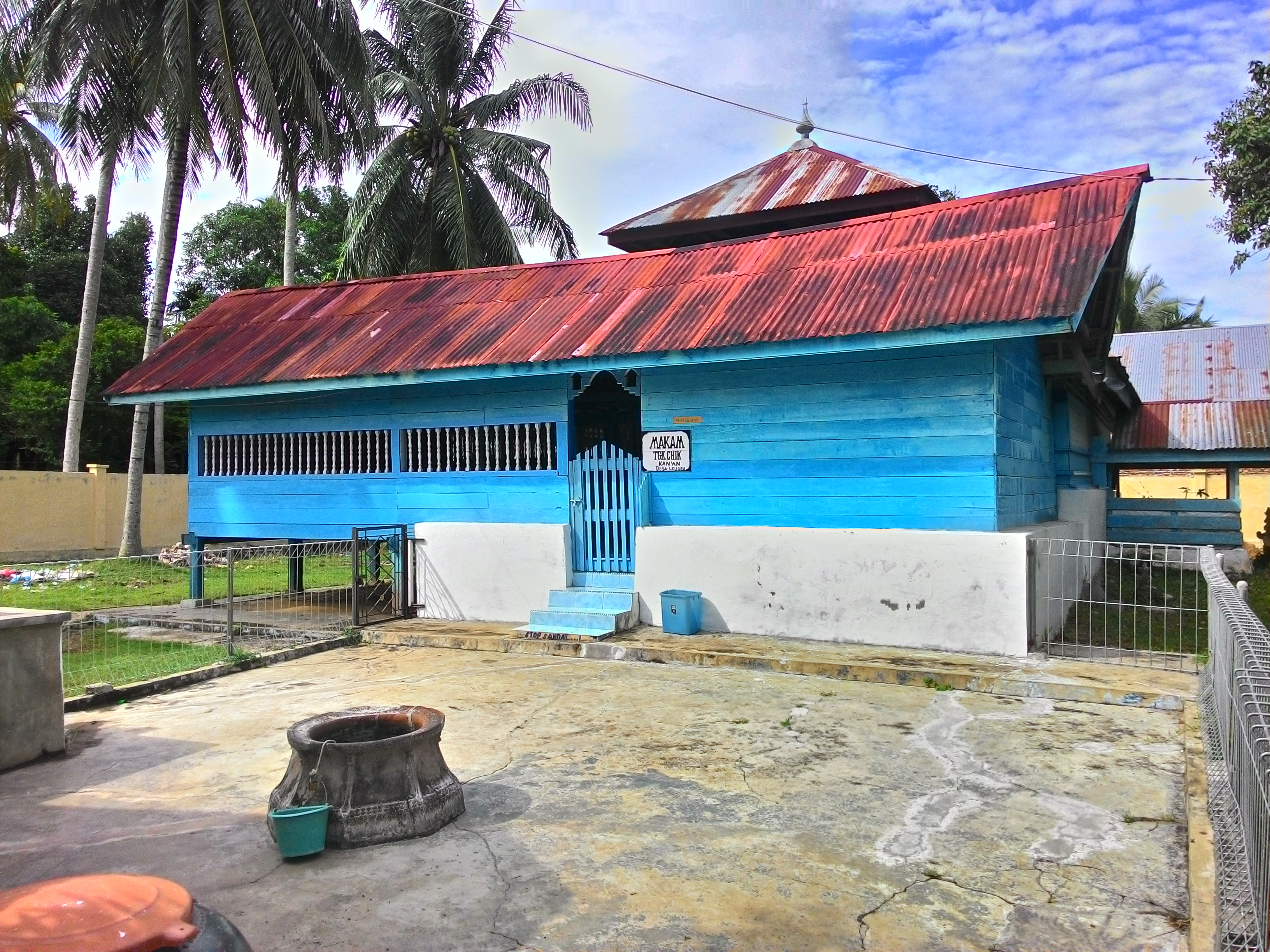 Shaikh Abdullah Kan'an grave in Aceh